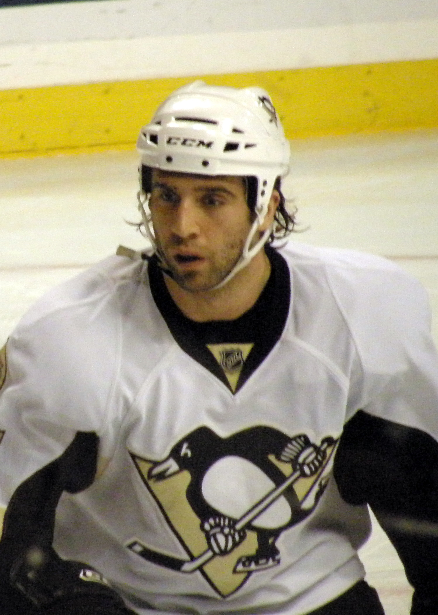 #25 Maxime Talbot (C)